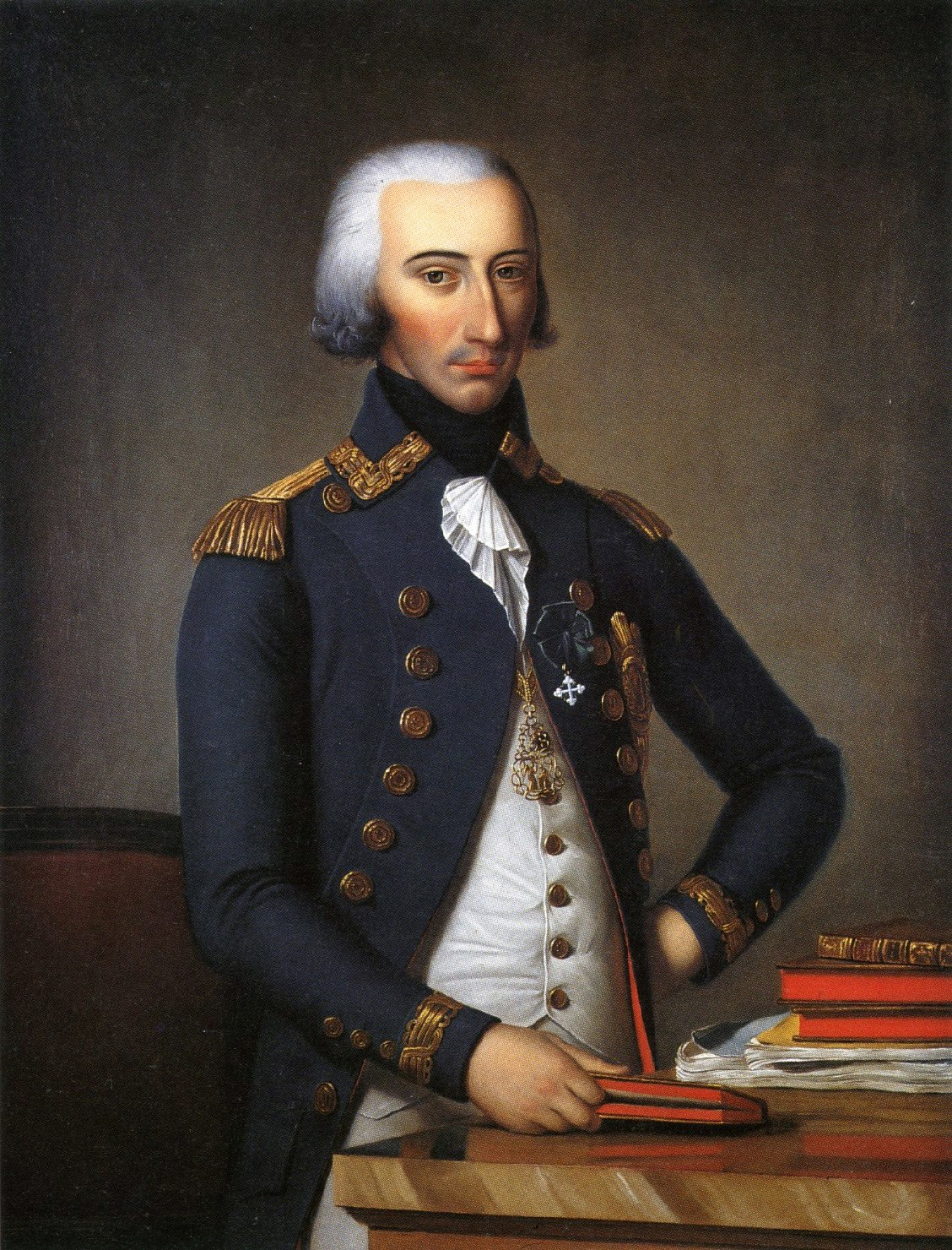 Portrait of Prince Giuseppe, Count of Asti (1766-1802) Caption from Catalogo Generale dei Beni Culturali Ritratto di Placido Benedetto di Savoia, Conte di Moriana. Il personaggio è ritratto in posa convenzionale secondo i canoni classici del tempo. La figura è posta dietro un tavolo su cui sono poggiati dei libri e delle carte, a sinistra si scorge lo schienale foderato di una sedia. Il personaggio è posto di tre quarti verso la destra dell'osservatore, poggia la mano destra sul tavolo tenendo il segno di una pagina di un libro, mentre il braccio sinistro è piegato e posato su.l fianco. Il ritratto fu donato, insieme a quello del fratello Carlo Felice, alla Biblioteca dell'università sassarese dal Conte di Moriana, che fu Governatore di Sassari dall'ottobre 1799 all'ottobre 1802 e che prese in protezione la medesima biblioteca. E' di buona esecuzione, molto probabilmente piemontese e risponde appieno ai canoni neoclassici della ritrattistica del tempo.